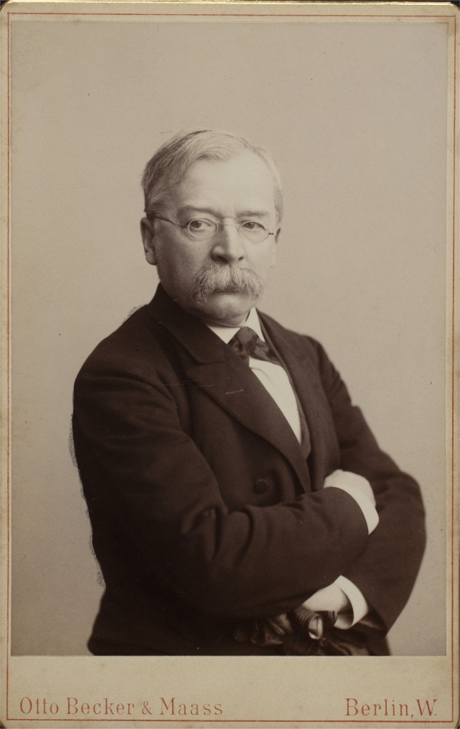 Woldemar Bargiel as professor in Berlin 1885